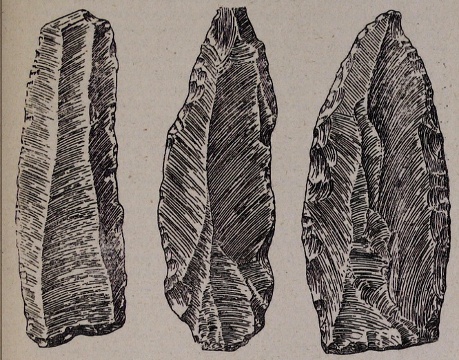 Վաղ նոր քարի դարի գործիքներ